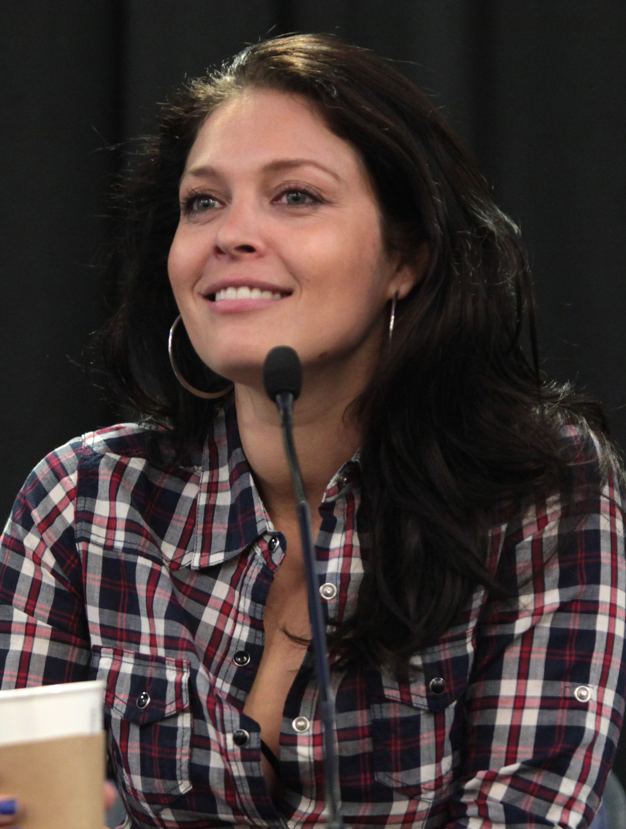 Alaina Huffman at the 2015 Phoenix Comicon Fan Fest in Glendale, Arizona.